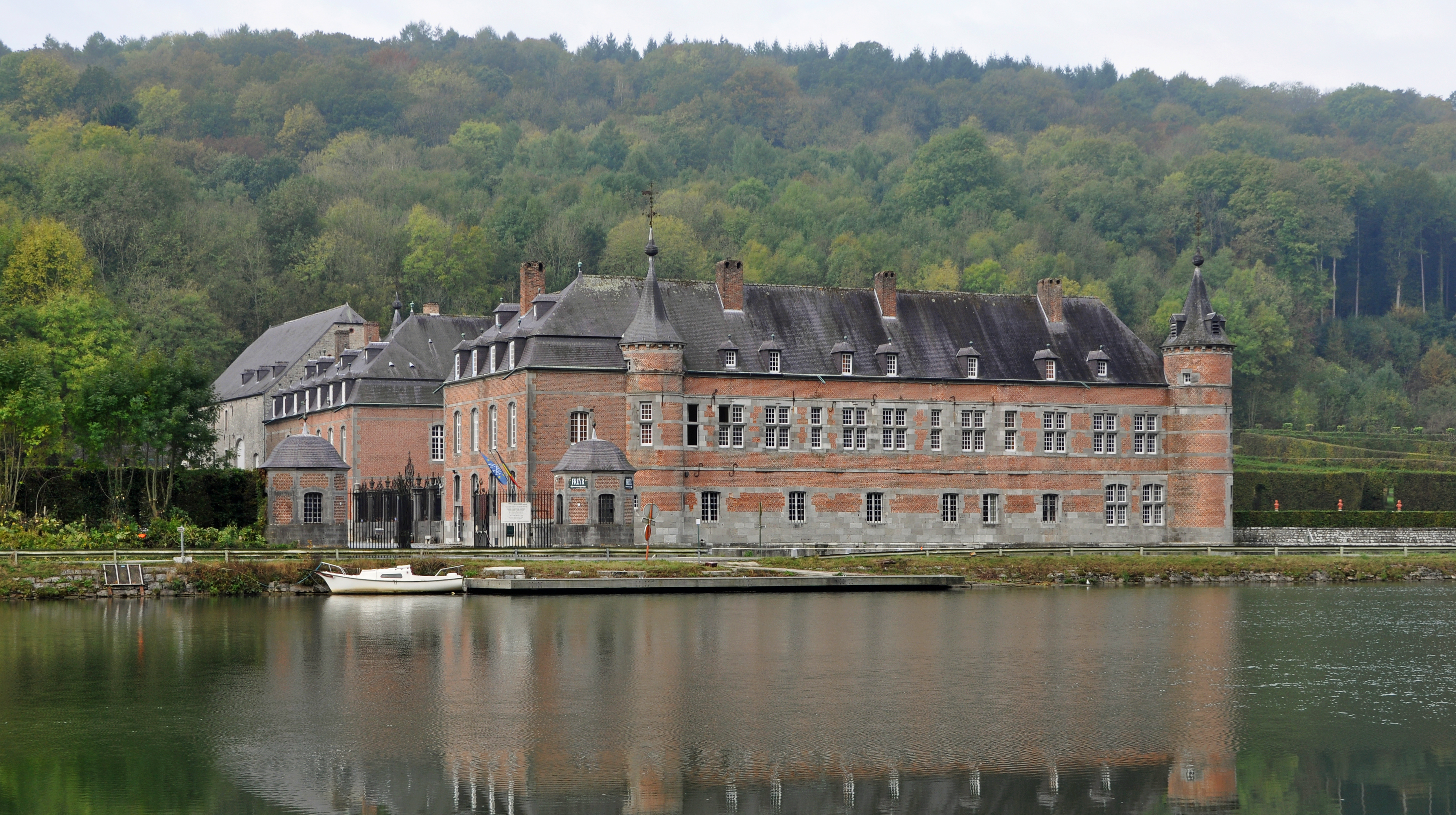 Hastière (province of Namur, Belgium): castle of Freÿr